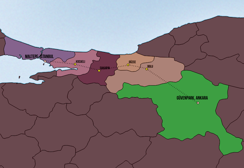 This the 450km route that the 2017 Turkish March of Justice followed from Ankara to Istanbul Source: NTV